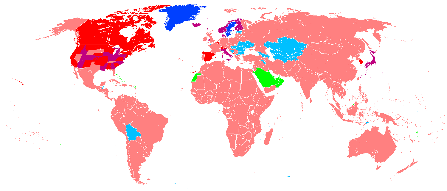 Personal income taxed by: None One government level, at a flat rate One government level, at progressive rates Multiple government levels, at a flat rate Multiple government levels, at progressive rates Multiple government levels, some at a flat rate and some at progressive rates